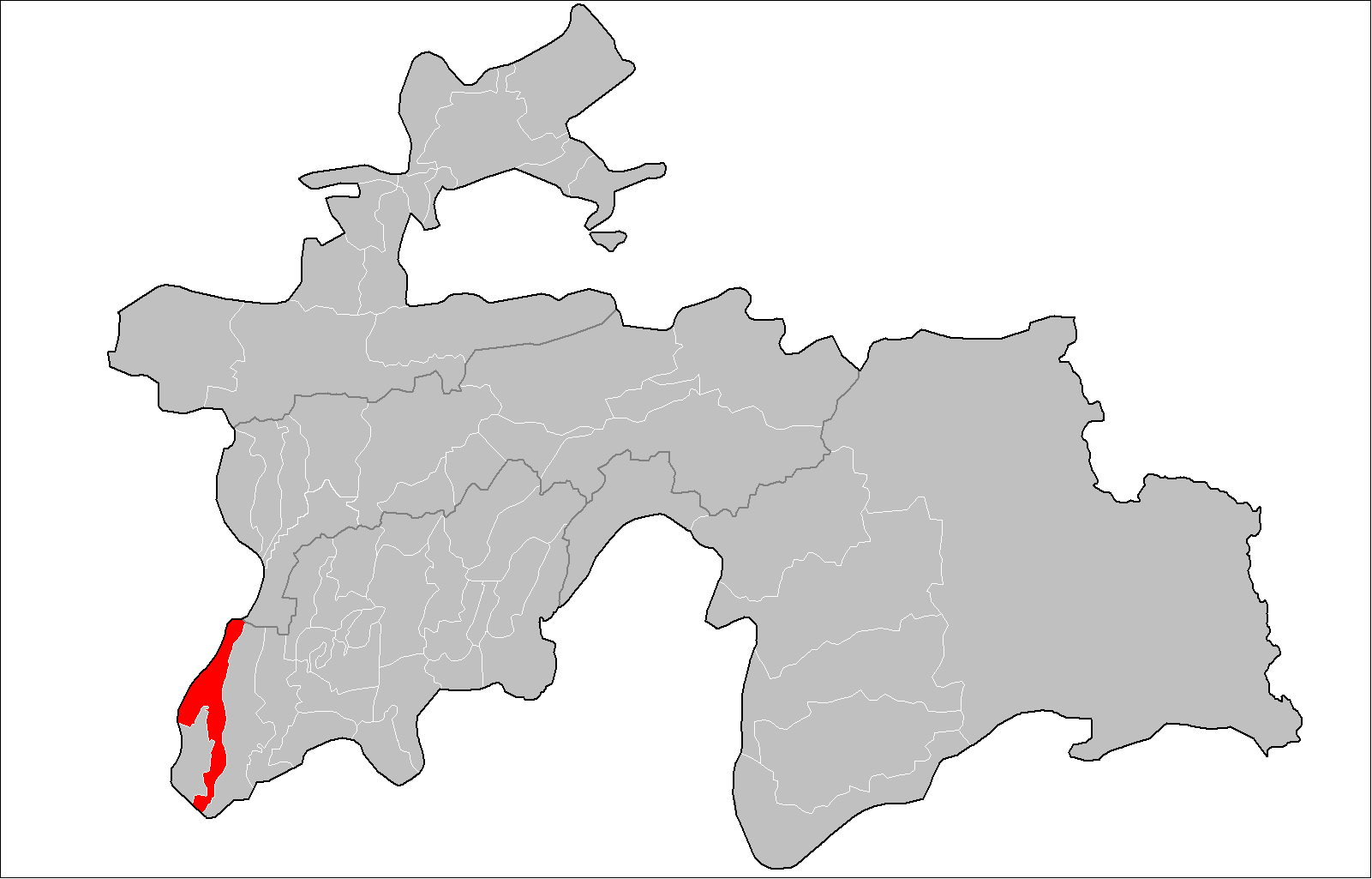 Location of Shahrtuz District in Tajikistan